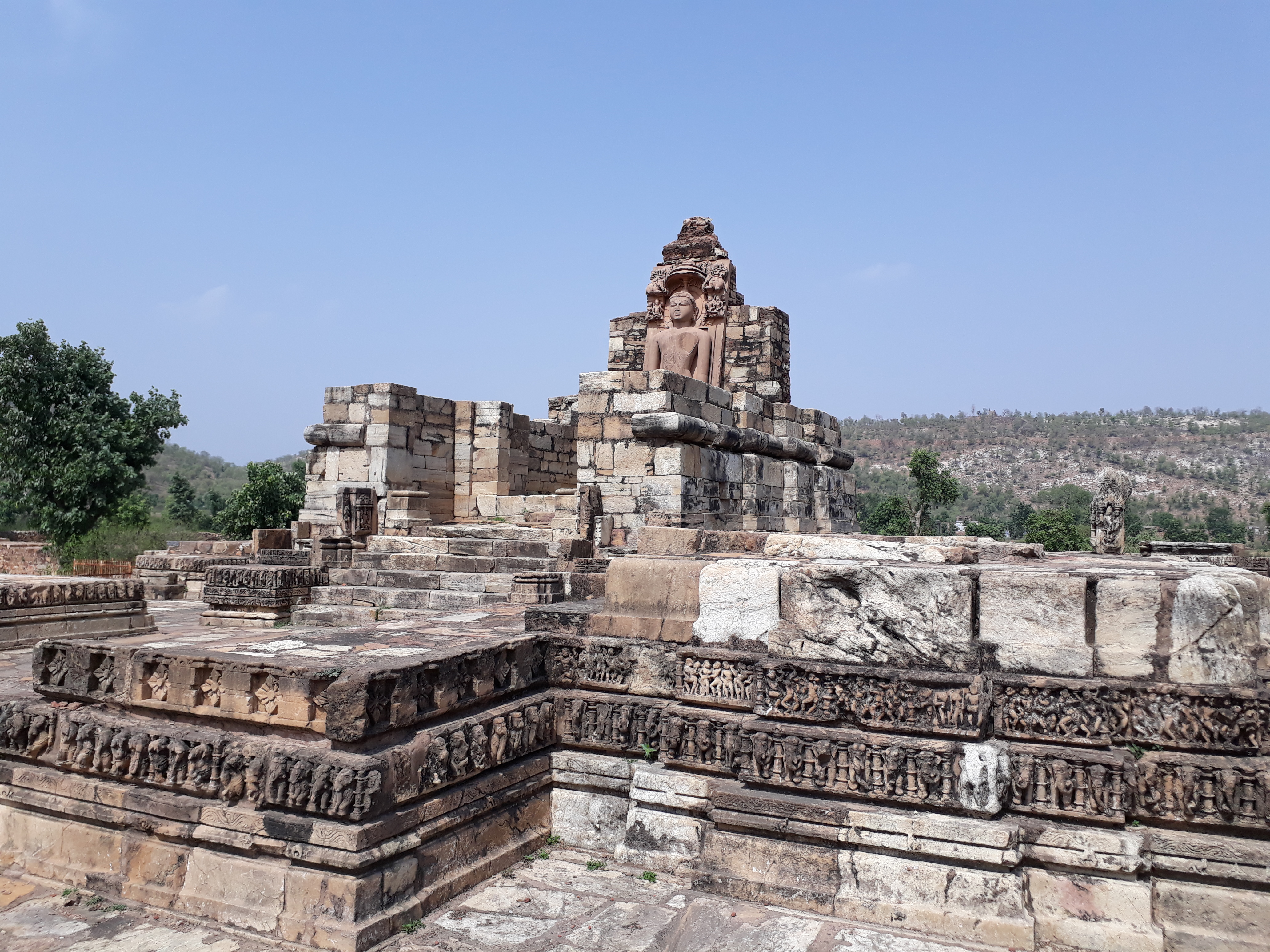 It's a place in Alwar district inside the Sariska Tiger Reserve